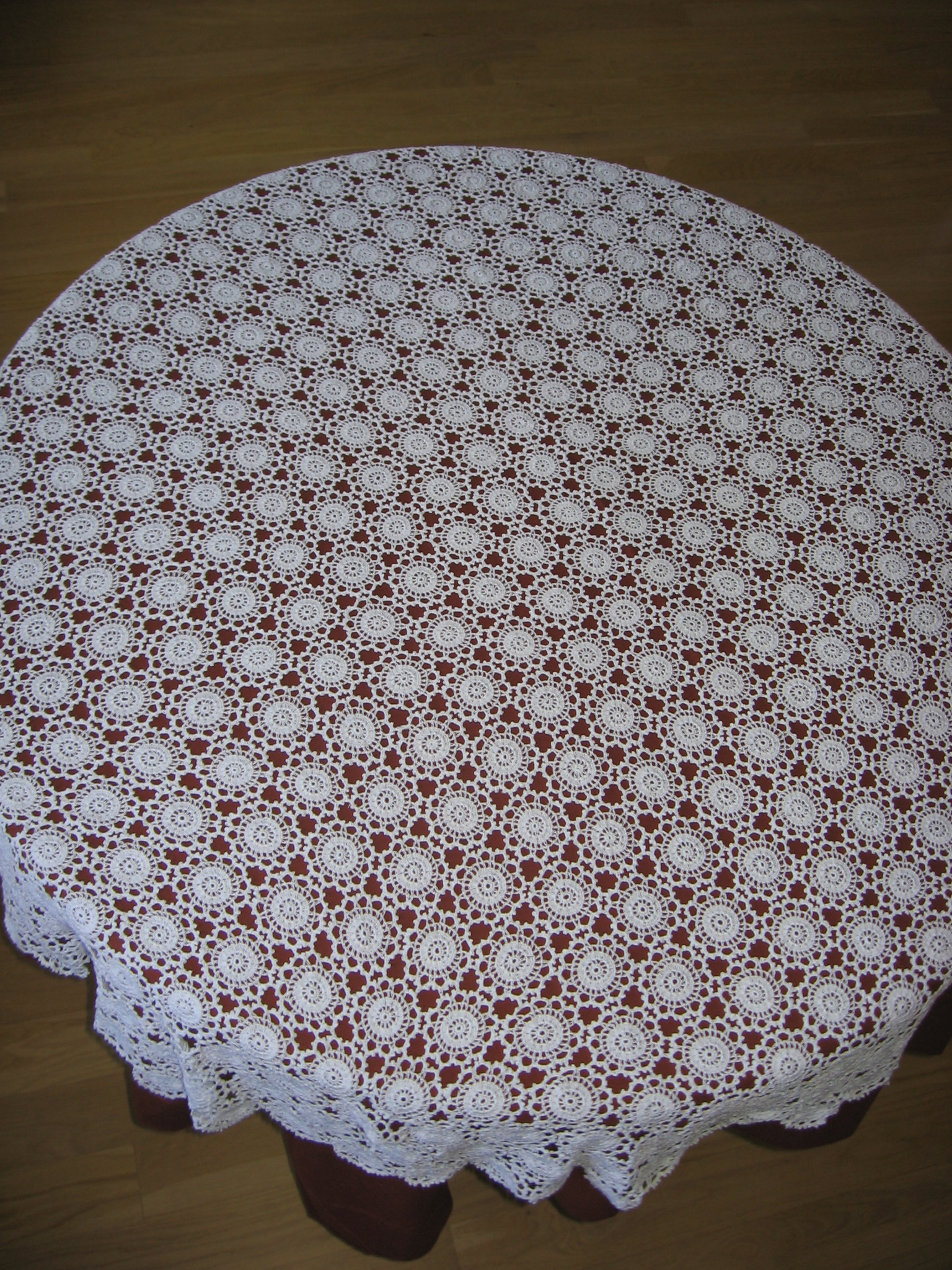 crochet tablecloth made using hook